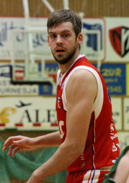 Sigurður Þorvaldsson of Snæfell in a game against Njarðvík in Ljónagryfjan on November 20, 2014.